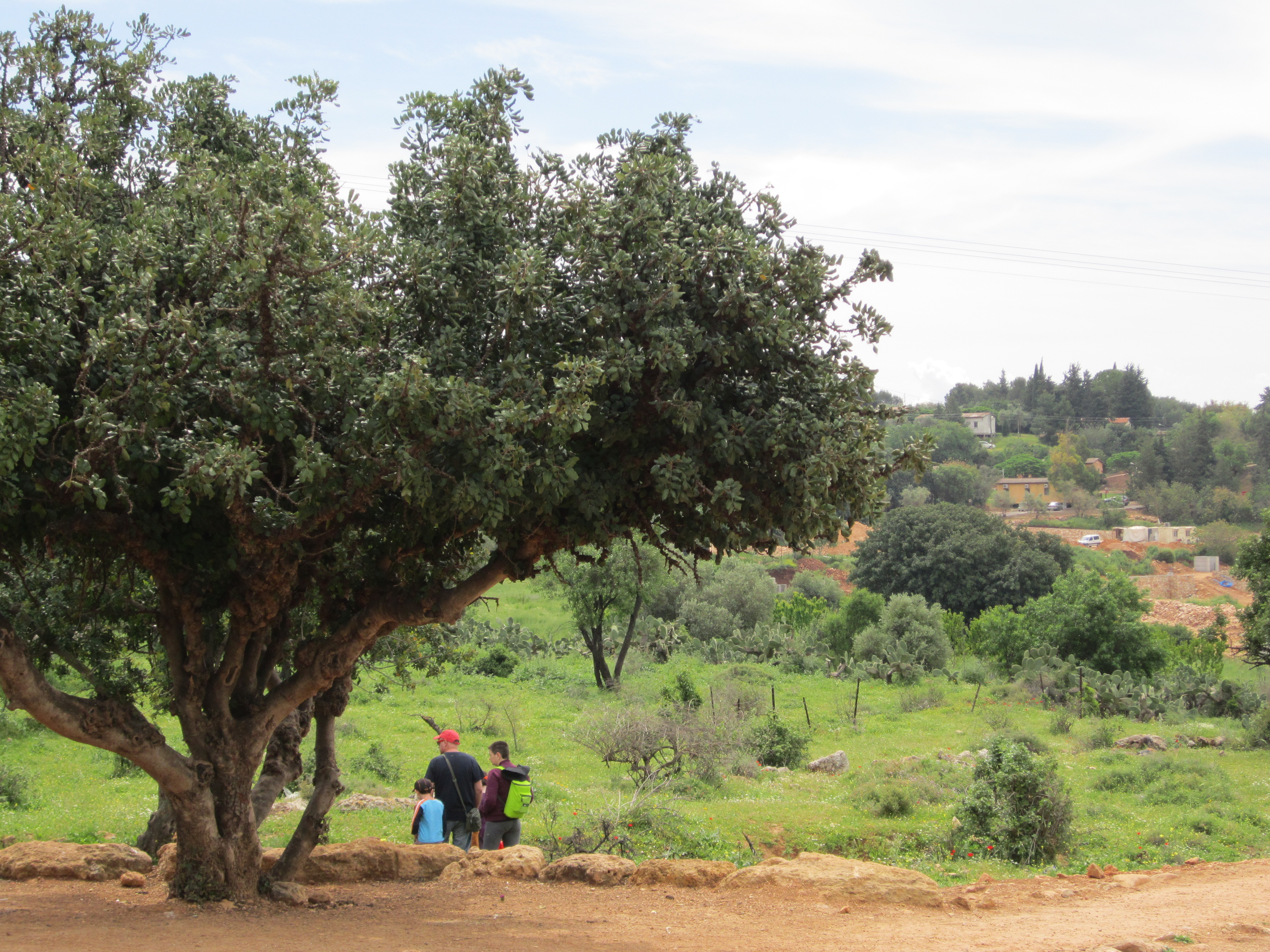 parod